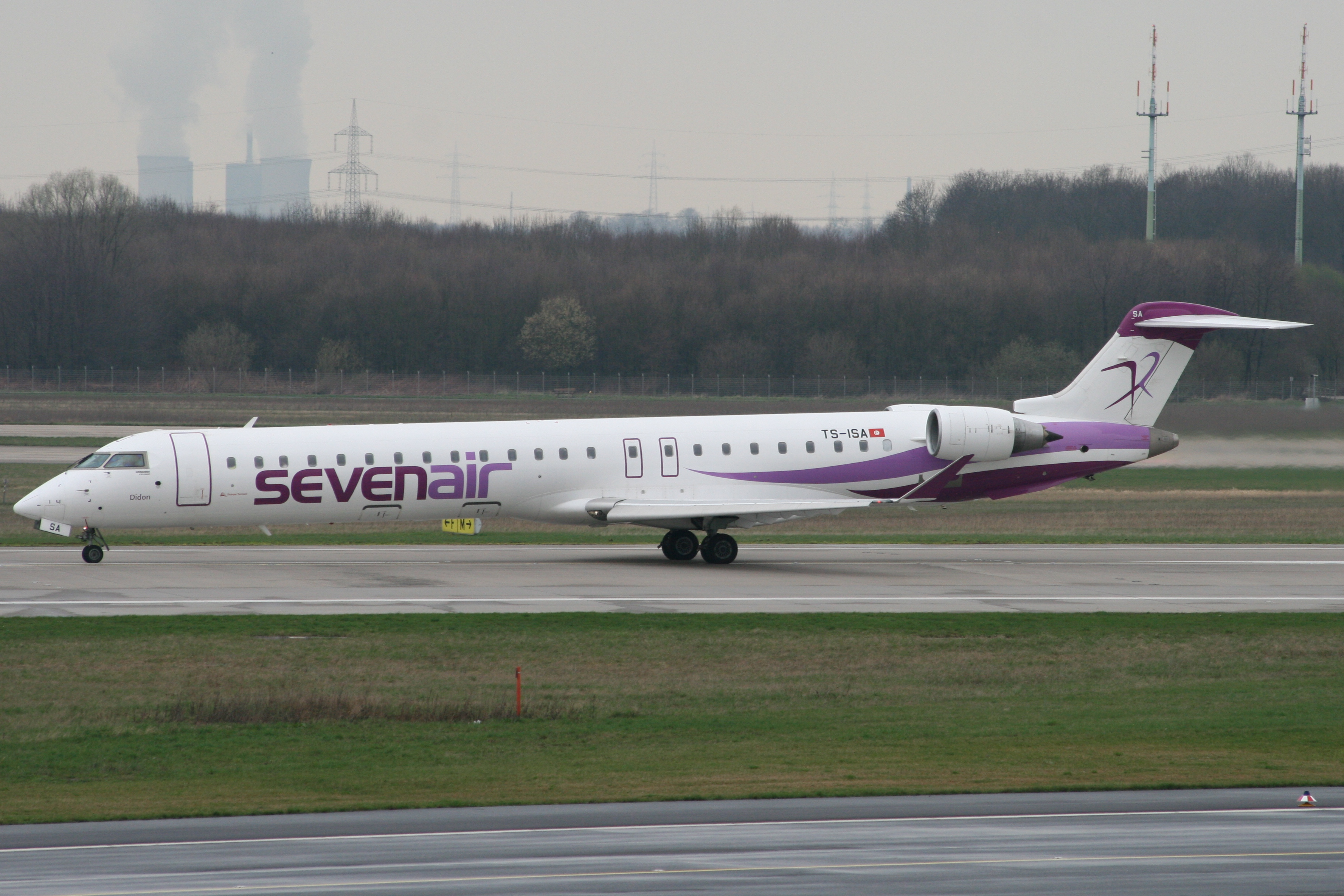 TS-ISA, Sevenair CRJ-900 (c/n 15091)